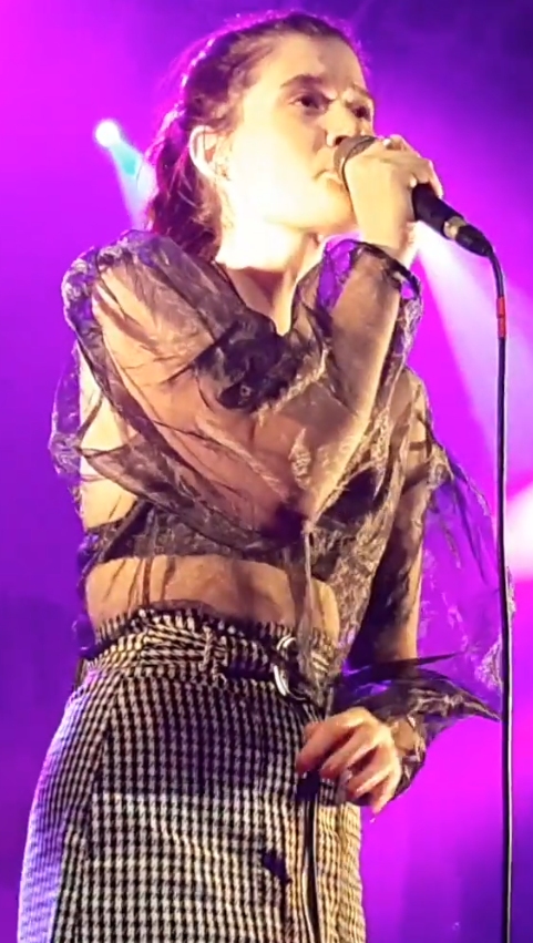 Madeline Juno during her "Was bleibt Tour 2019" in Hamburg.